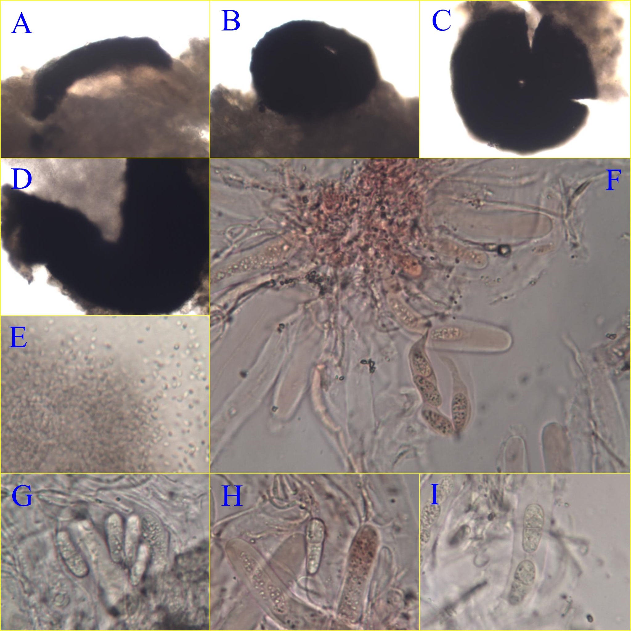 Collemopsidium foveolatum (A.L. Sm.) F. Mohr Image location: Lourinhã, Portugal Microscopy: Legend – A) Lip shaped involucrellum (side view); B) Full perithecia; C) Top view of a perithecium; D) Pycnidium (similar to perithecia); E) Conidia cloud emerging from pycnidium; F) Asci and spores; G-I) Spores. This observation refers to the lichen growing on barnacles that is noticed as black dots over the shell. Following the key in the reference one arrives to the pair of species C. foveolatum and C. sublitorale. They mainly differ by the size of perithecia, though overlaping (0.1-0.2 mm for the former and 0.15 – 0.5 mm for the latter). I estimate that the size of perithecia (involucrellum included) is consistently less than 0.2 mm, which makes C. foveolatum a good choice. I will try to make the microscopy, though the dimensions for the spores of the two species are also similar. Used references: British Flora For more information about this, see the observation page at Mushroom Observer.